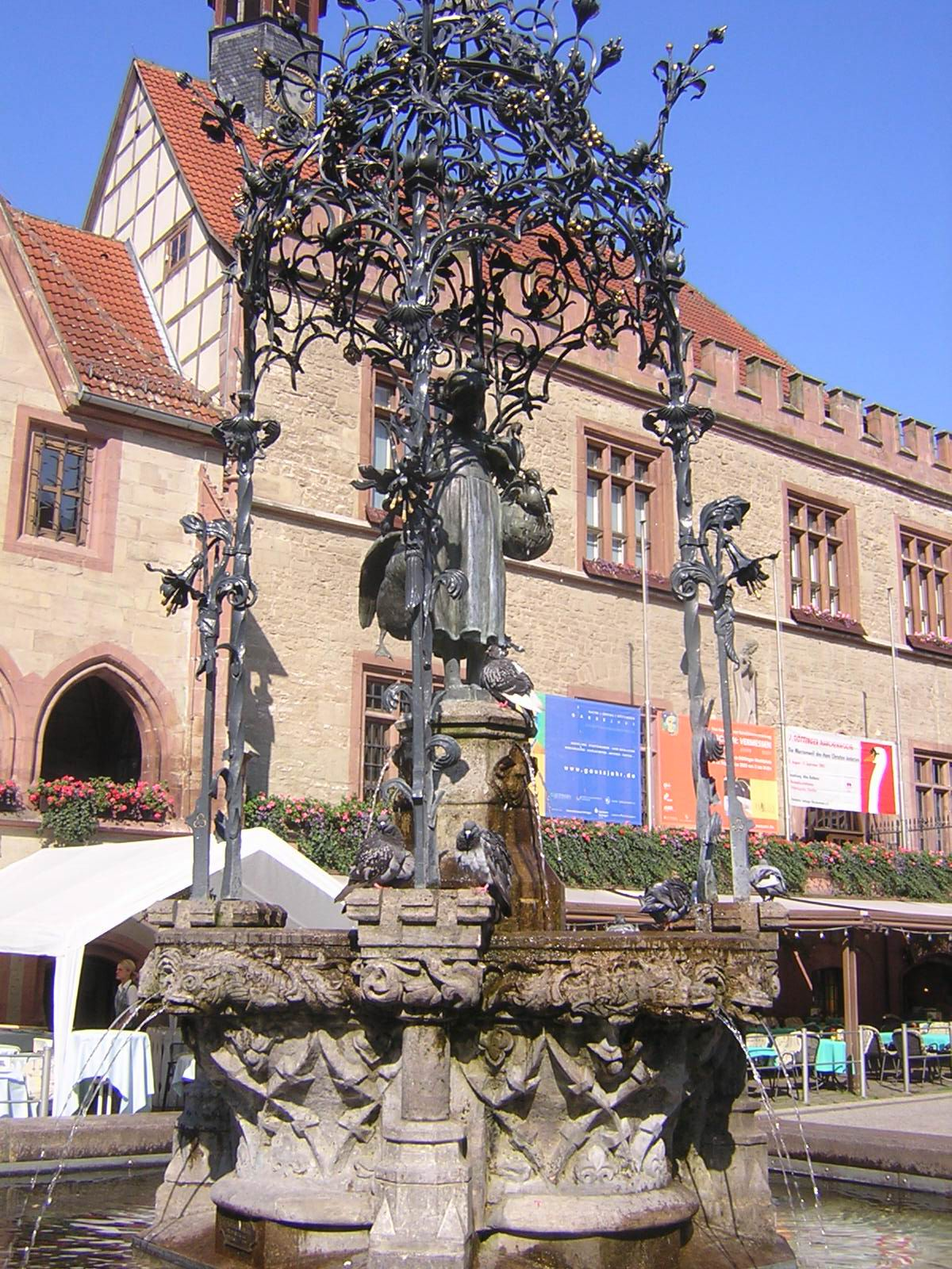 Gänseliesel fountain on the market square in Göttingen